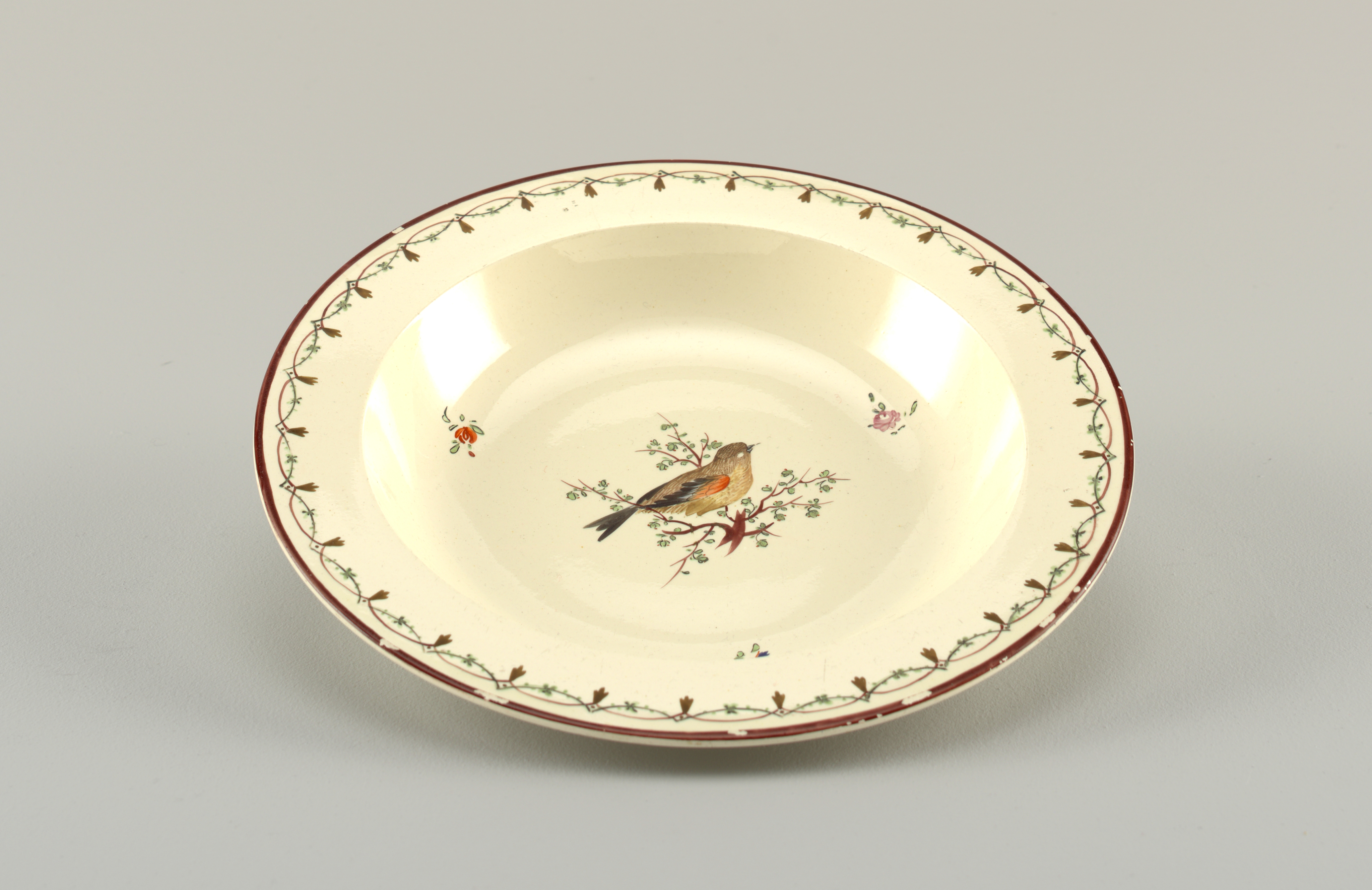 Flat, straight marly, decorated with overglaze maroon edge, maroon and green foliated and interlaced lines. In center of (a), warber-like bird with red wing, turned right; (b) with purple wing, turned left.